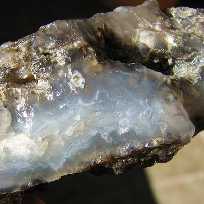 blue seam agate from Nebraska (state gemstone)